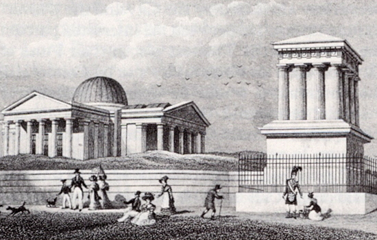 Picture of Playfair's observatory on Calton Hill, Edinburgh, Scotland.